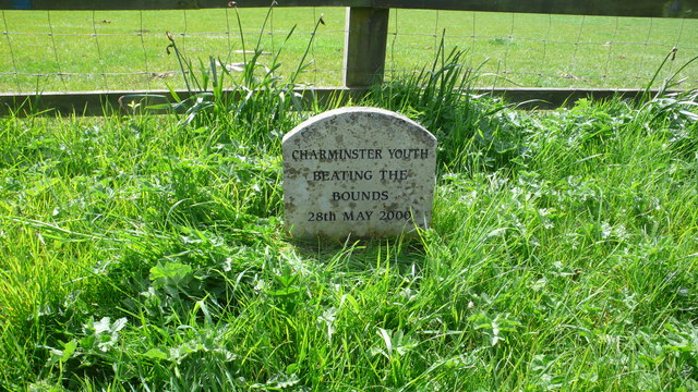 Beating the Bounds Marker Stone, Charminster On the edge of Yalbury Park just north of Dorchester.